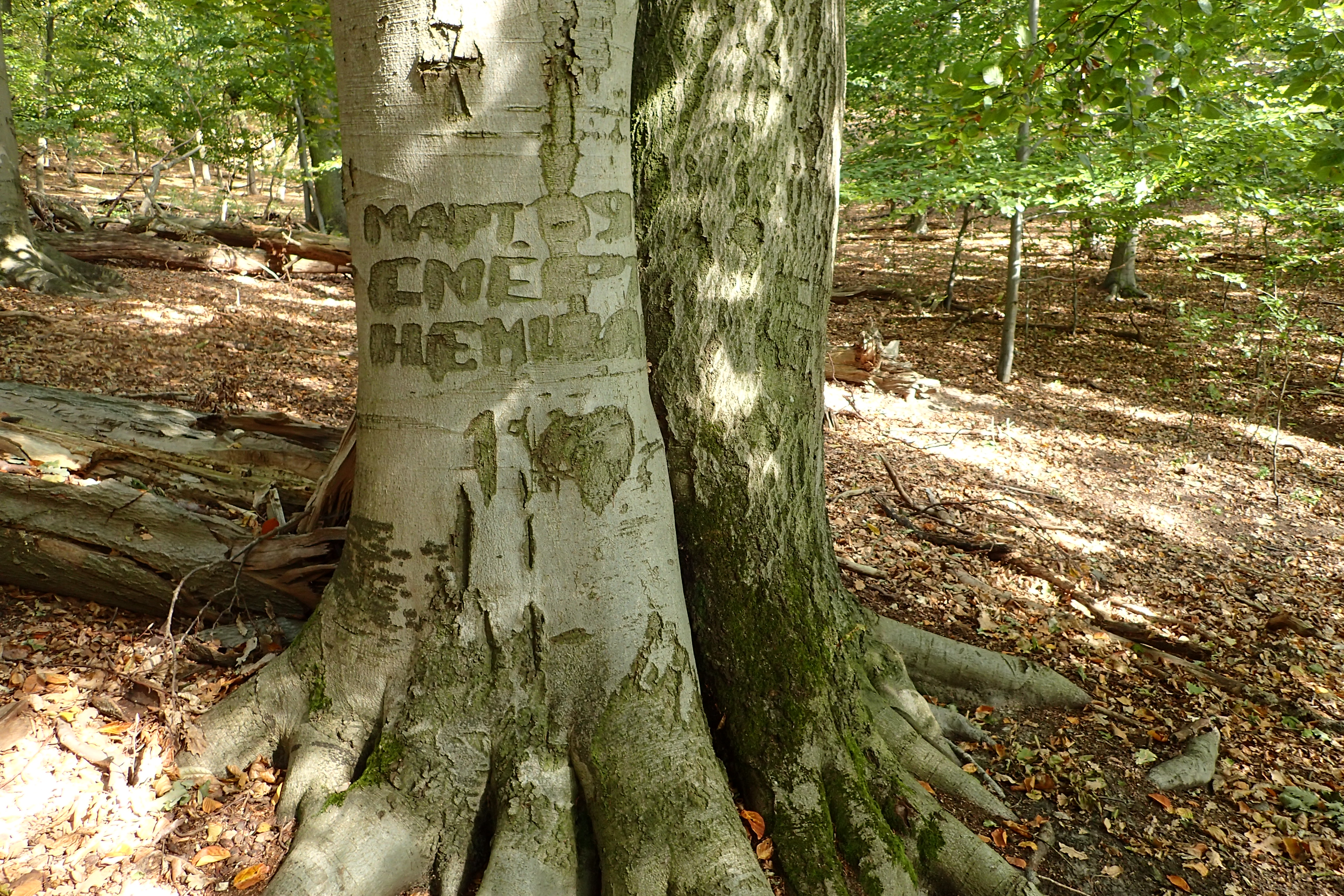 "Mart. 1945 Smert' Niemcom" ("march 1945 death to the Germans"). Arborglyph on beech Fagus sylvatica in nature reserve Bielinek on Oder river, NW Poland.